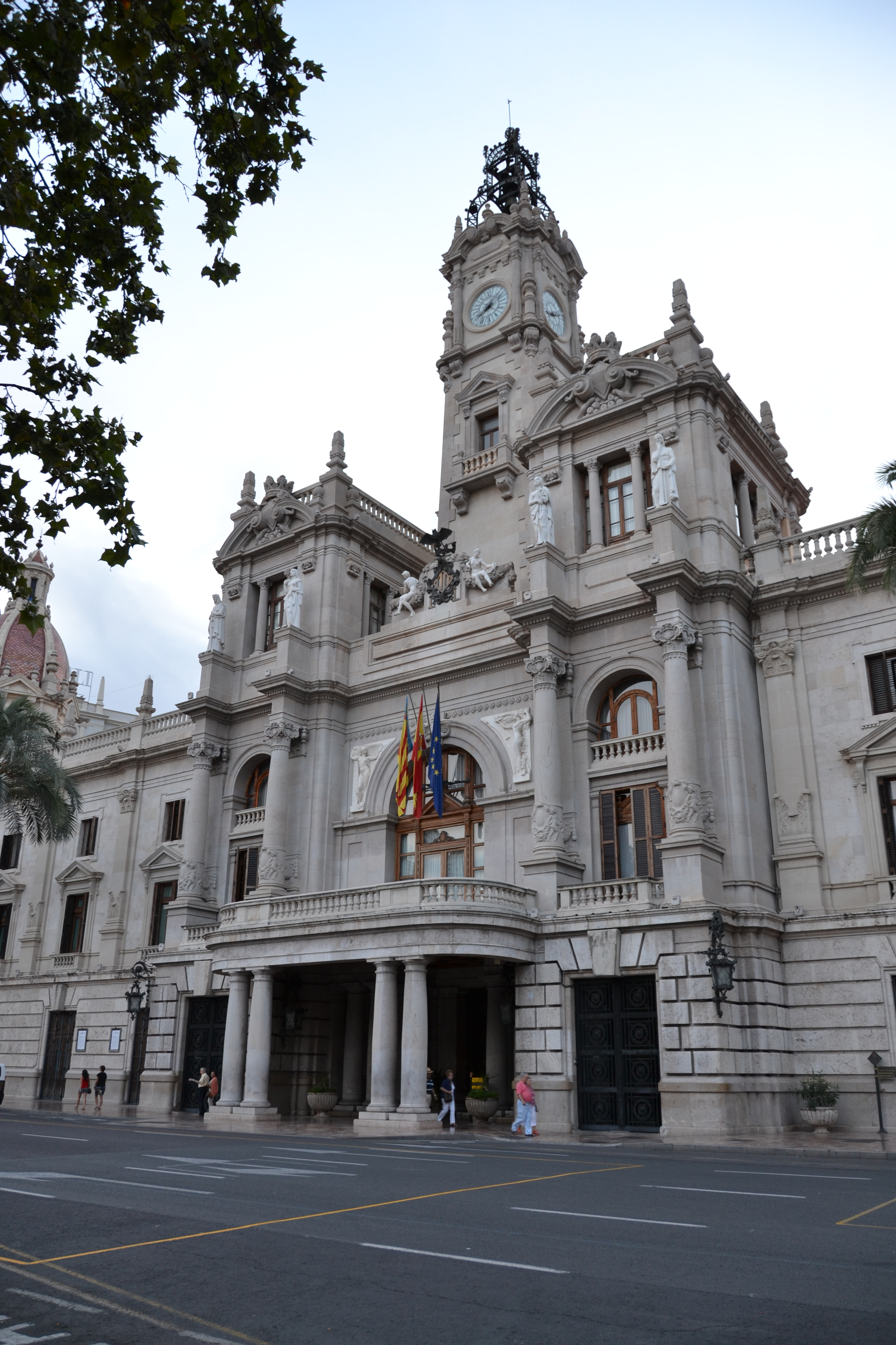 Valencia's Town Hall, main entrance.